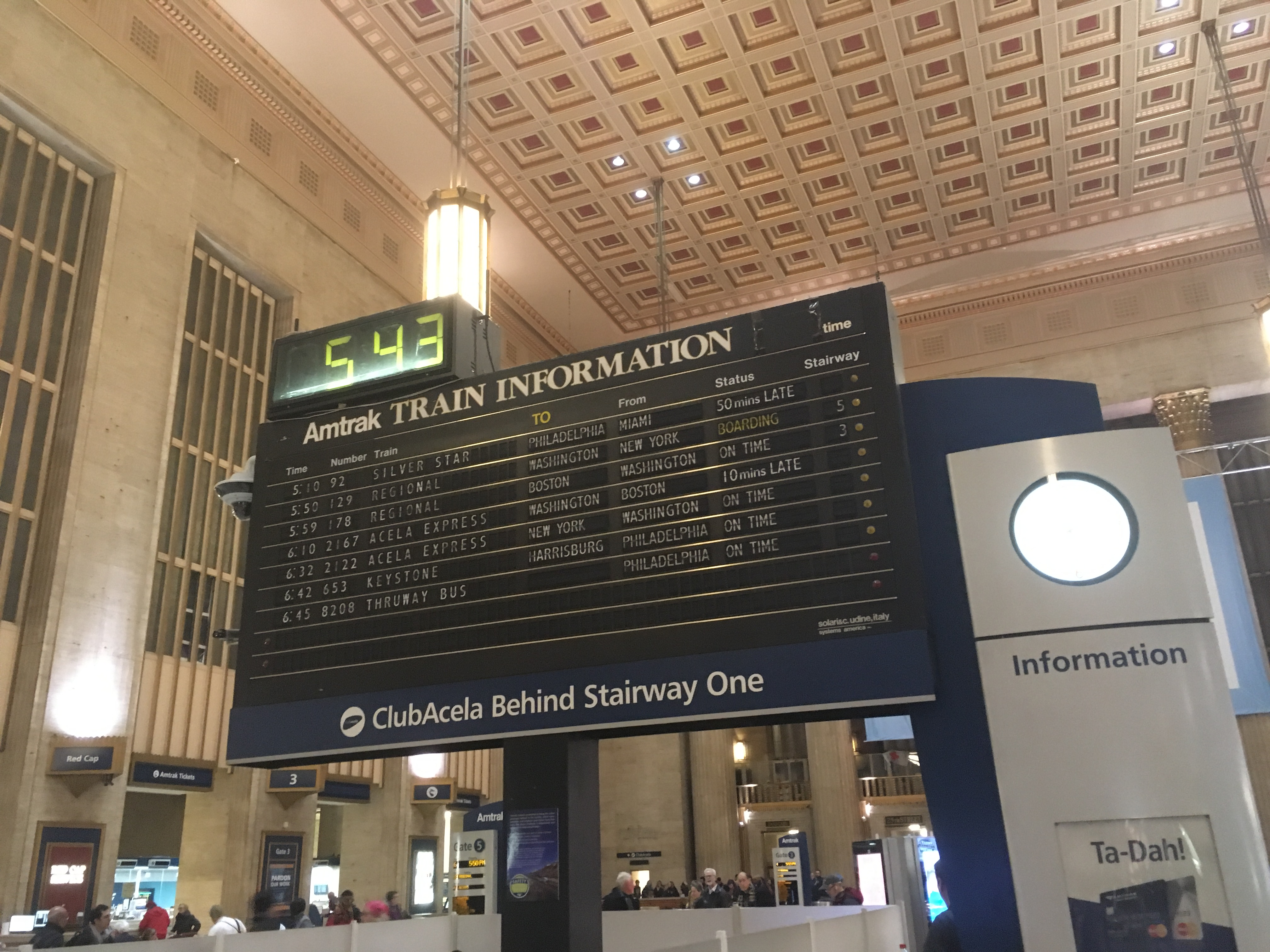 The Solari board displaying train departure times at Amtrak’s 30th Street Station in Philadelphia, Pennsylvania